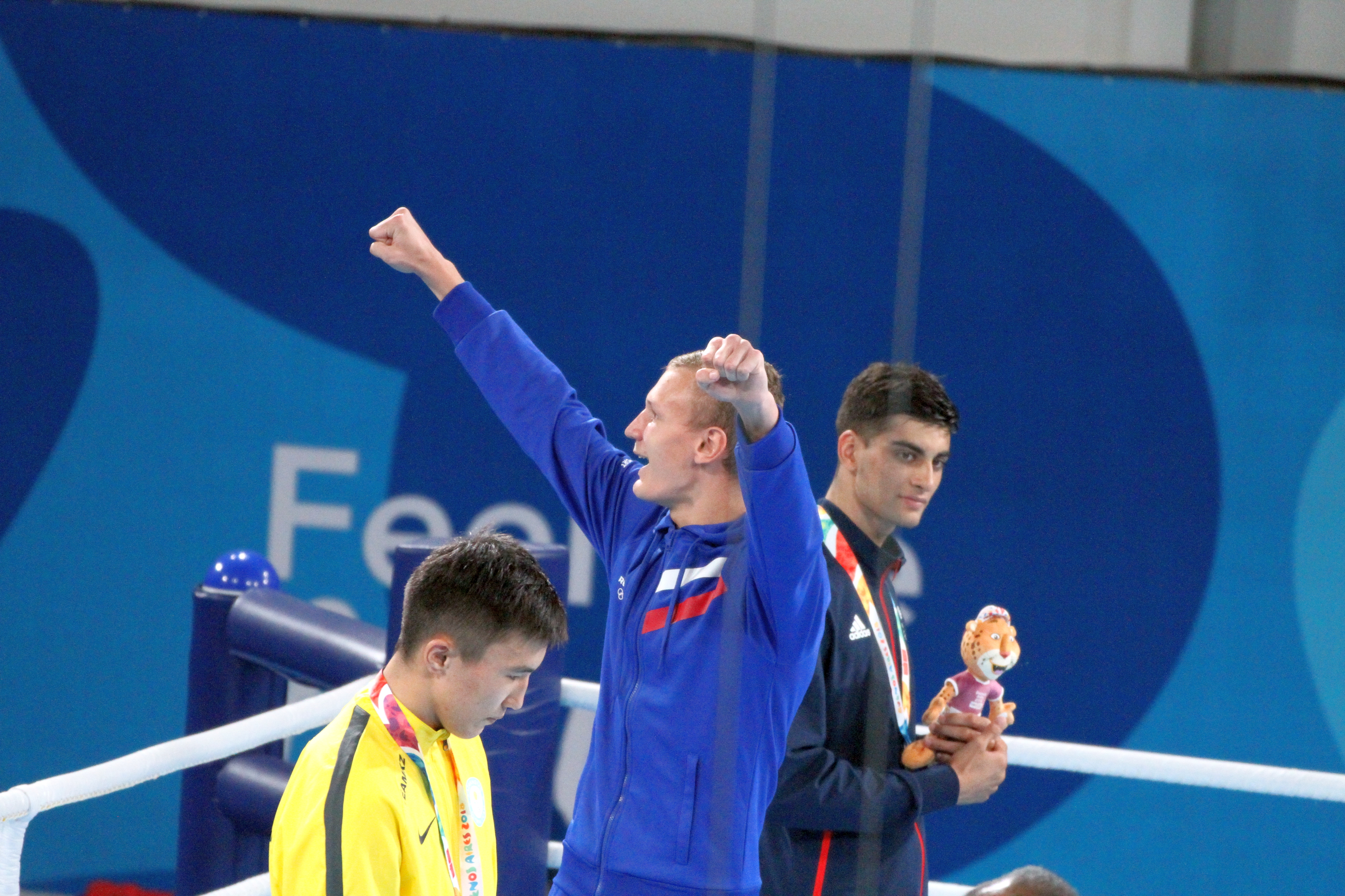 Boxing at the 2018 Summer Youth Olympics on 18 October 2018 – Boys' light welterweight Victory Ceremony - Gold: Ilia Popov (Russia), Silver: Talgat Shaiken (Kazakhstan), Bronze: Hassan Azim (Great Britain); Medal handover by Nicole Hoevertsz (IOC, Aruba), Gift presented by Sidi Mohamed Moustahsane (Morocco, AIBA).